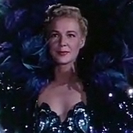 Screenshot of Betty Hutton from the trailer for the film The Greatest Show on Earth.